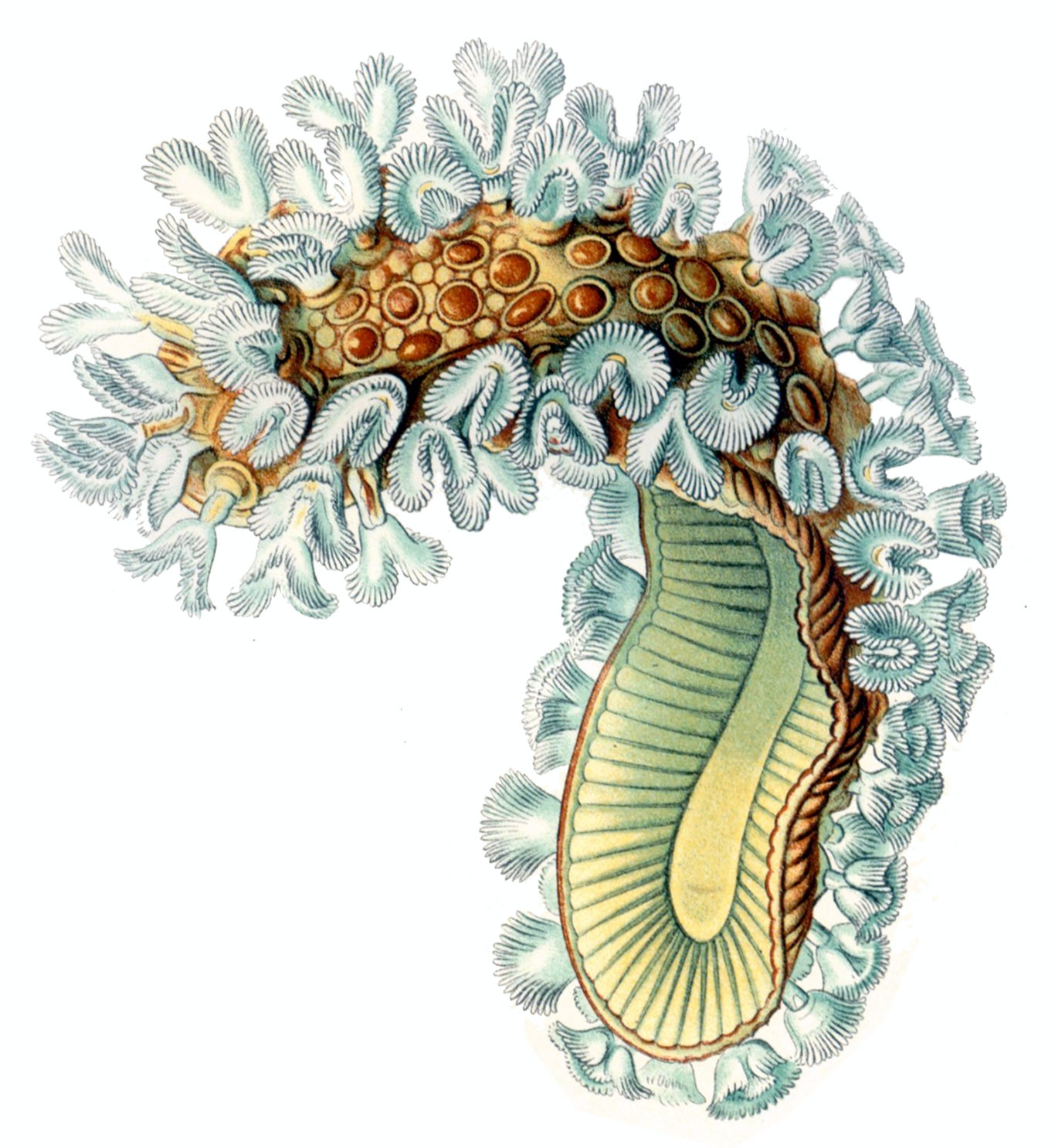 Mature colonial specimen of Cristatella Mucedo) ; from Haeckel (1904)